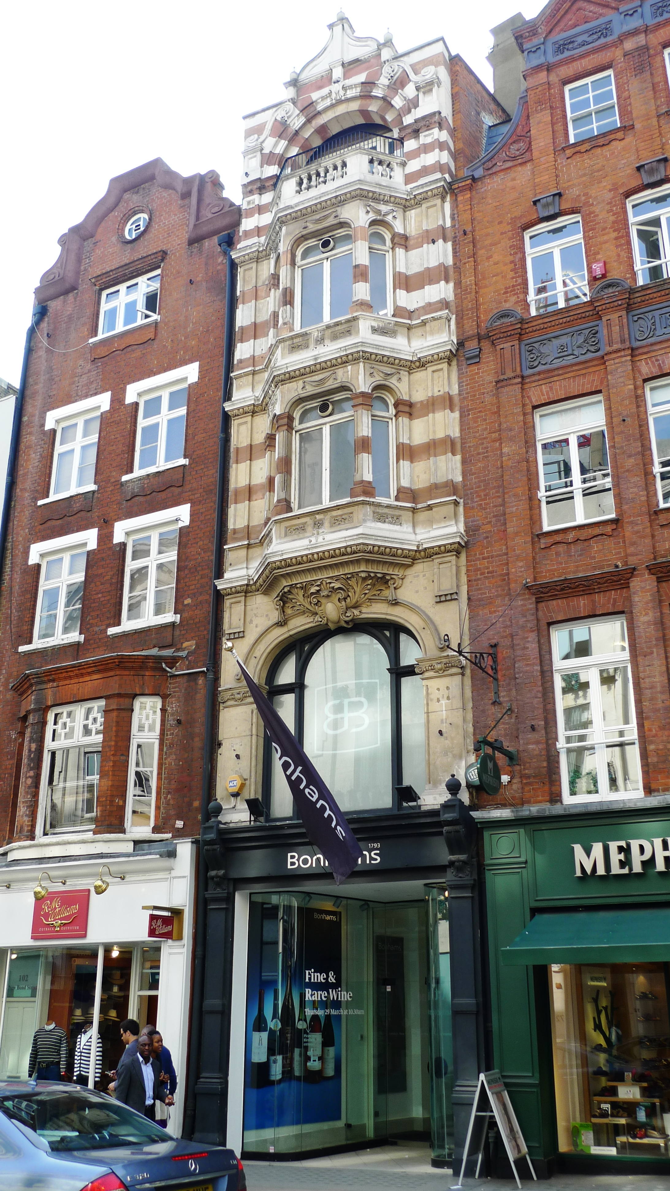 The headquarters of auction house Bonhams. Their site stretches quite far to the rear and has an entrance on Woodstock Street as well. The address of 101 New Bond Street is listed until the late-19th century as being a pub, The Green Man. Not sure if it was in this same building. Address: 101 New Bond Street. Former Name(s): The Green Man. Owner: Bonhams (website). Links: Dead Pubs (history)